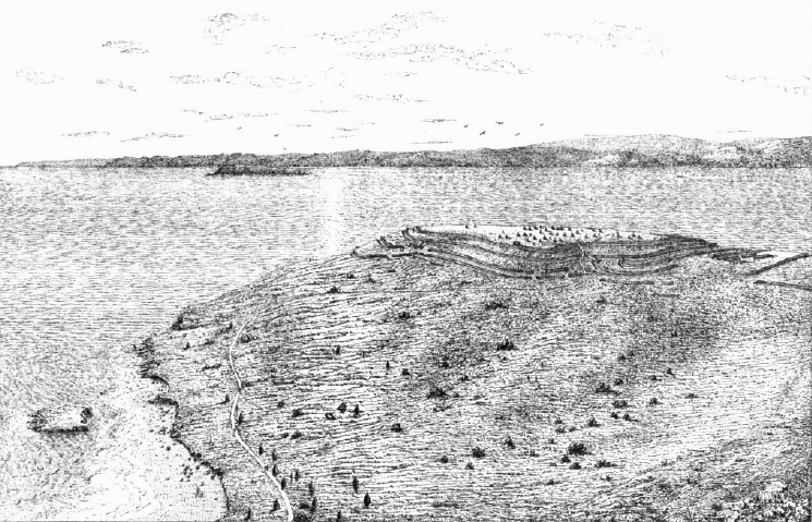 A drawing of Worlebury Camp as it would might have appeared to its original inhabitants from the southeast.